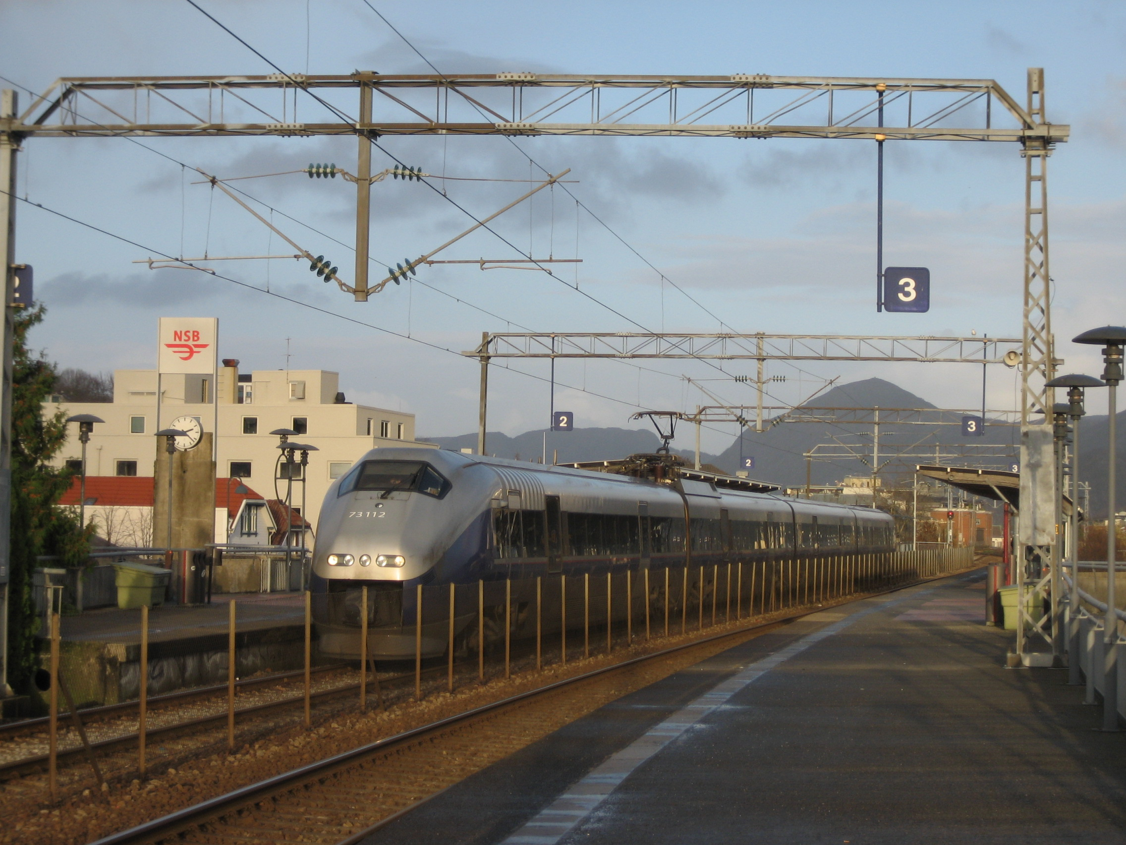 Sandnes railway station and the railway line through Sandnes centre is situated on a 6m high concrete wall dividing the historical shopping area and pedestrian street from the sea front and the newer shopping mall. Norges Statsbaner type 73 electric multiple unit.